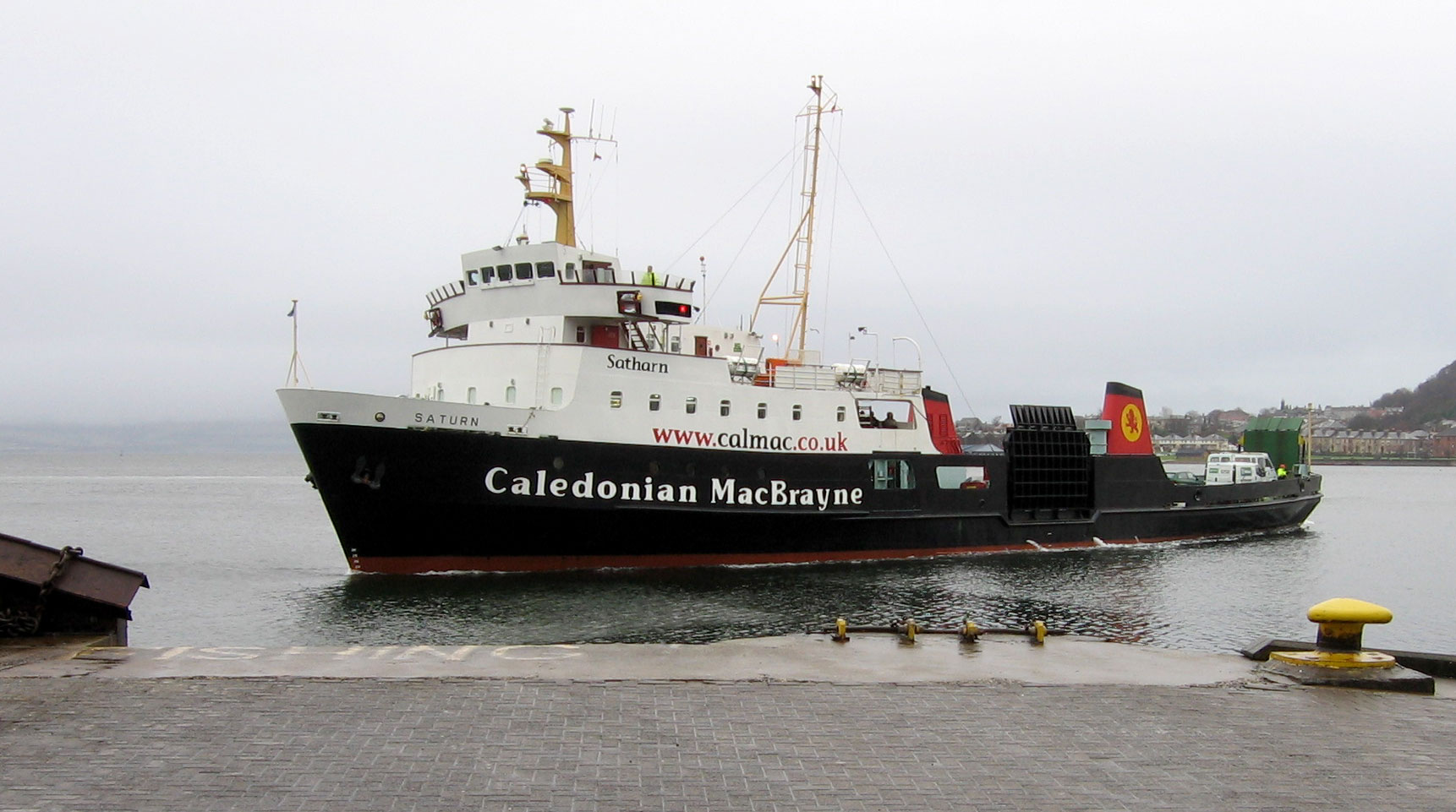 The Caledonian MacBrayne ferry MV Saturn arriving at Gourock pierhead on a damp winter morning in Scotland while filling in on the Dunoon service, away from her usual Wemyss Bay to Rothesay run.